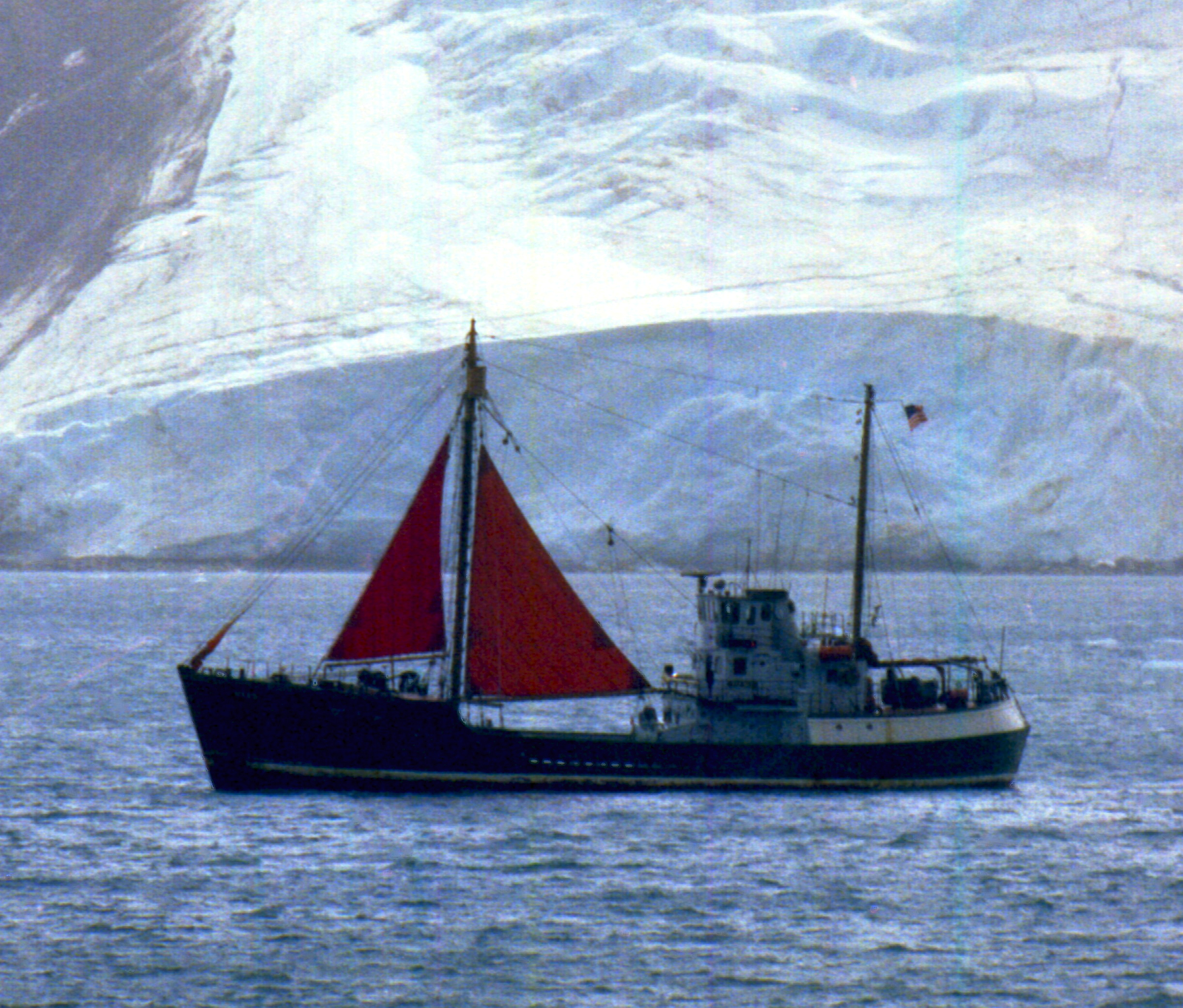 The R/V HERO was the ship supplying Palmer Station Antarctica & performing scientific support missions